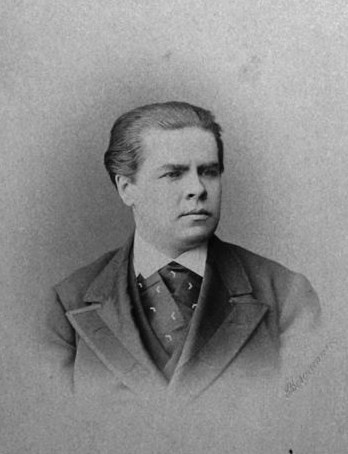 Alexandr Alexandrovich Polovtsev